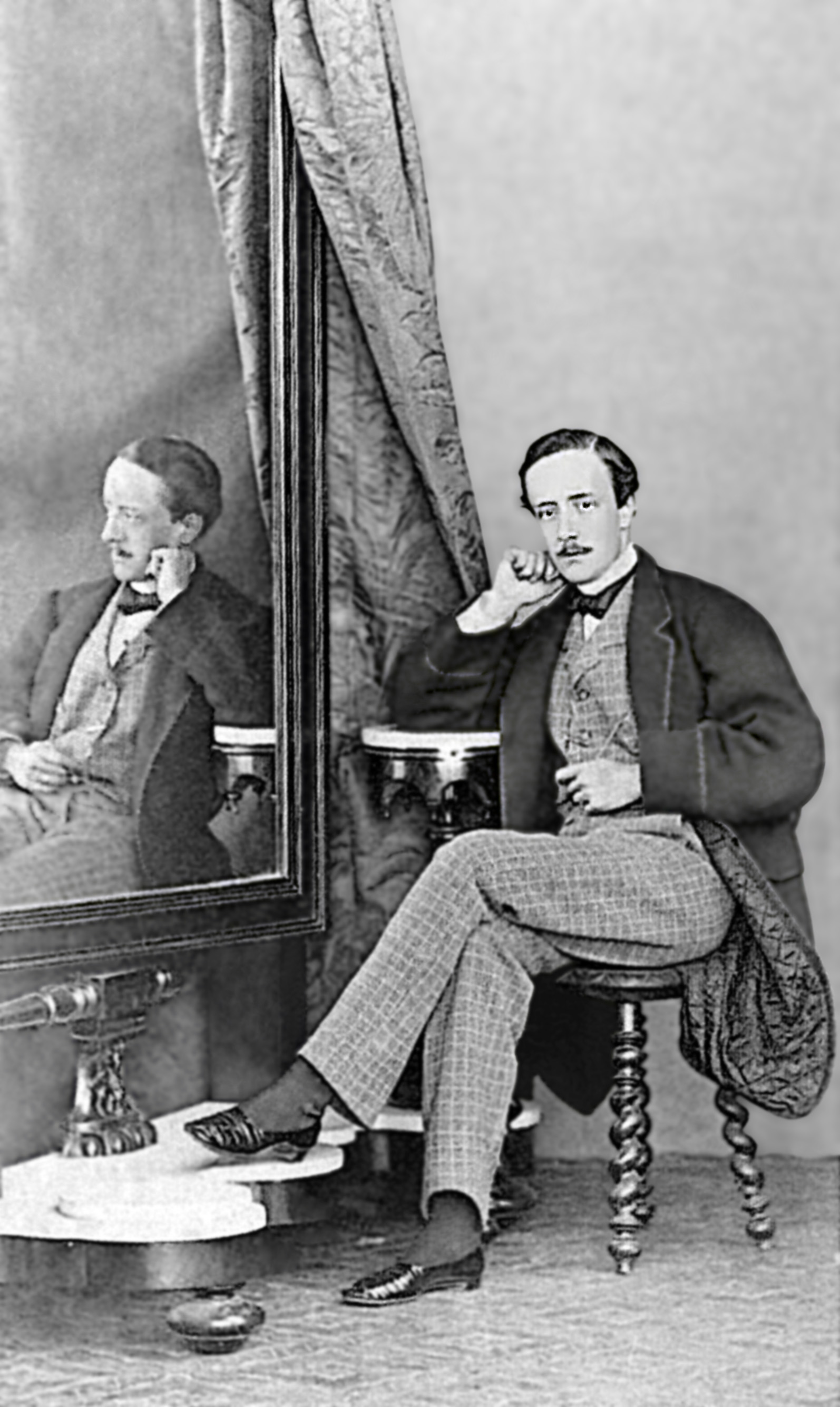 Picture of Casimiro Girona y Agrafel in 1860